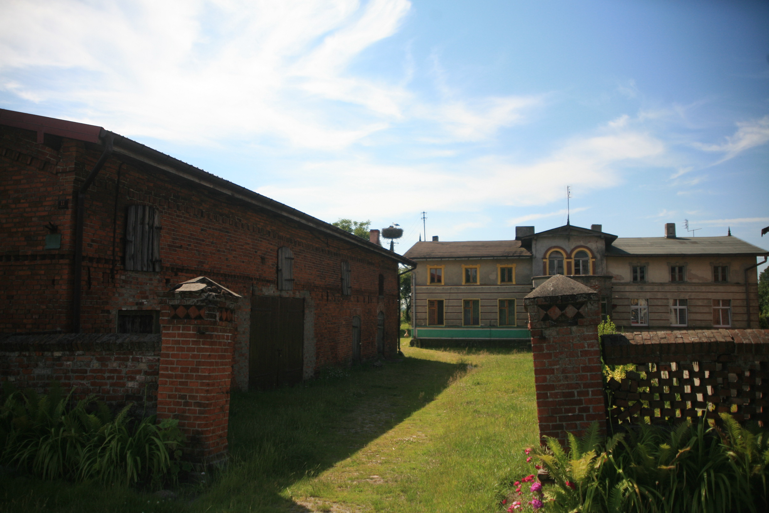 Stork nest in Malonowo, Poland